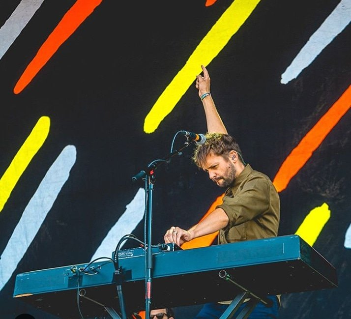 Lukas Wooller performing with Maximo Park 2017